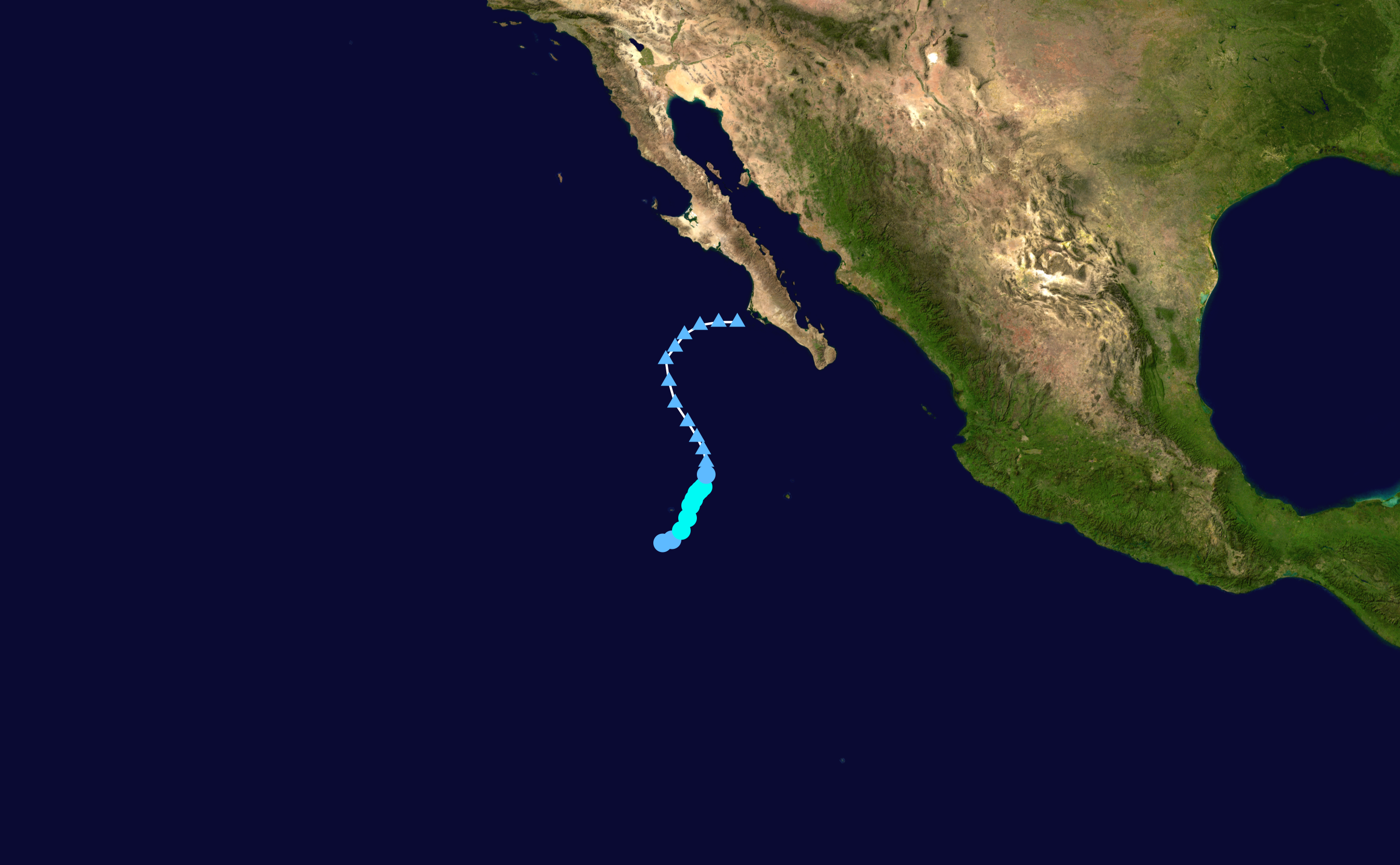 Track map of Tropical Storm Miriam of the 2006 Pacific hurricane season. The points show the location of the storm at 6-hour intervals. The colour represents the storm's maximum sustained wind speeds as classified in the Saffir–Simpson scale (see below), and the shape of the data points represent the nature of the storm, according to the legend below. Saffir–Simpson scale Tropical depression≤38 mph≤62 km/h Category 3111–129 mph178–208 km/h Tropical storm39–73 mph63–118 km/h Category 4130–156 mph209–251 km/h Category 174–95 mph119–153 km/h Category 5≥157 mph≥252 km/h Category 296–110 mph154–177 km/h Unknown Storm type Tropical cyclone Subtropical cyclone Extratropical cyclone / Remnant low / Tropical disturbance / Monsoon depression